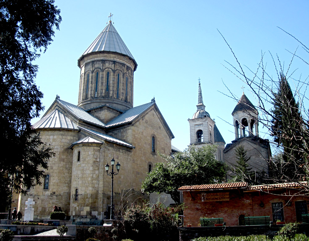 Tbilisi Sioni Cathedral in Georgia, Spring 2011